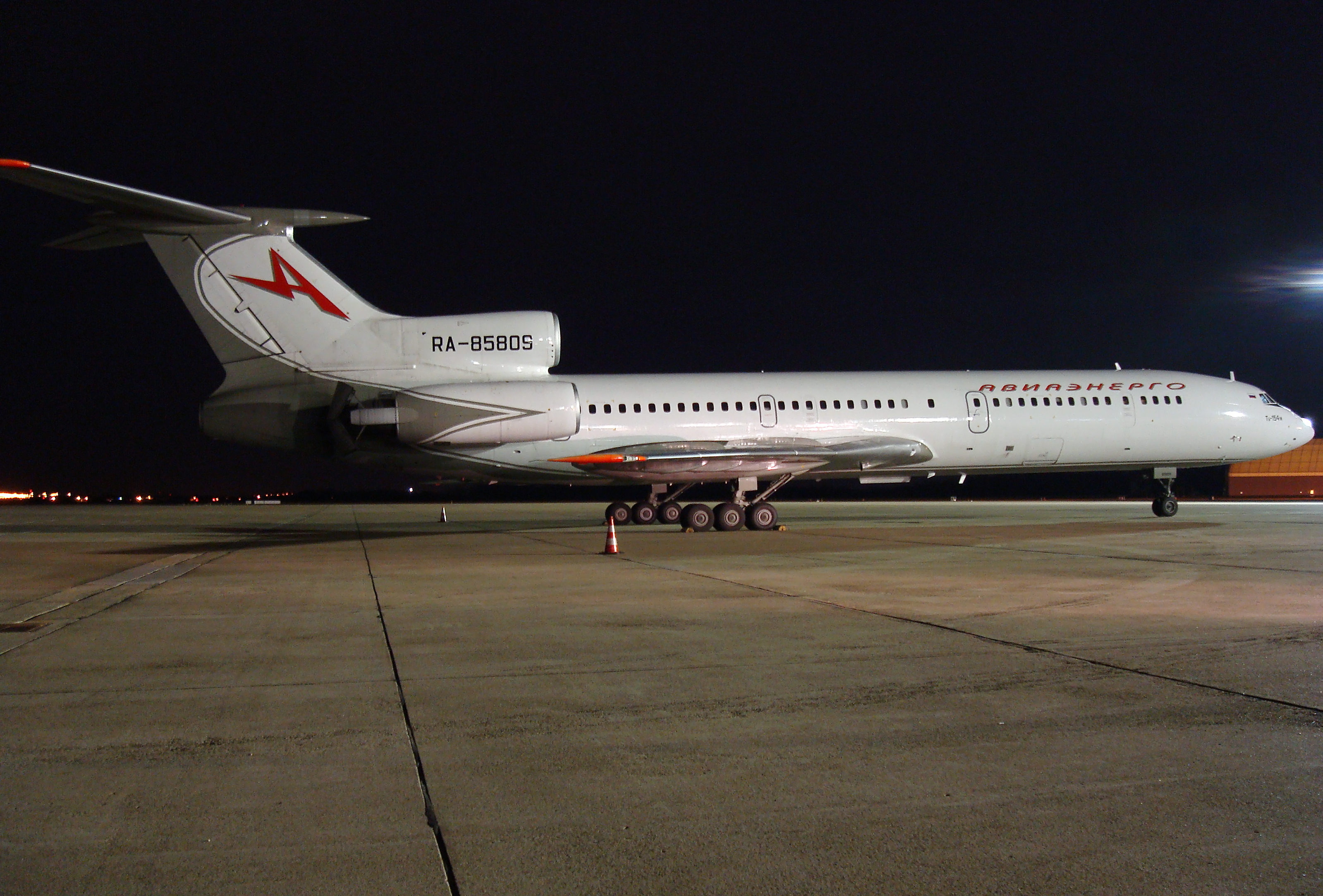 Tupolev 154M parked on Zagreb Airport.